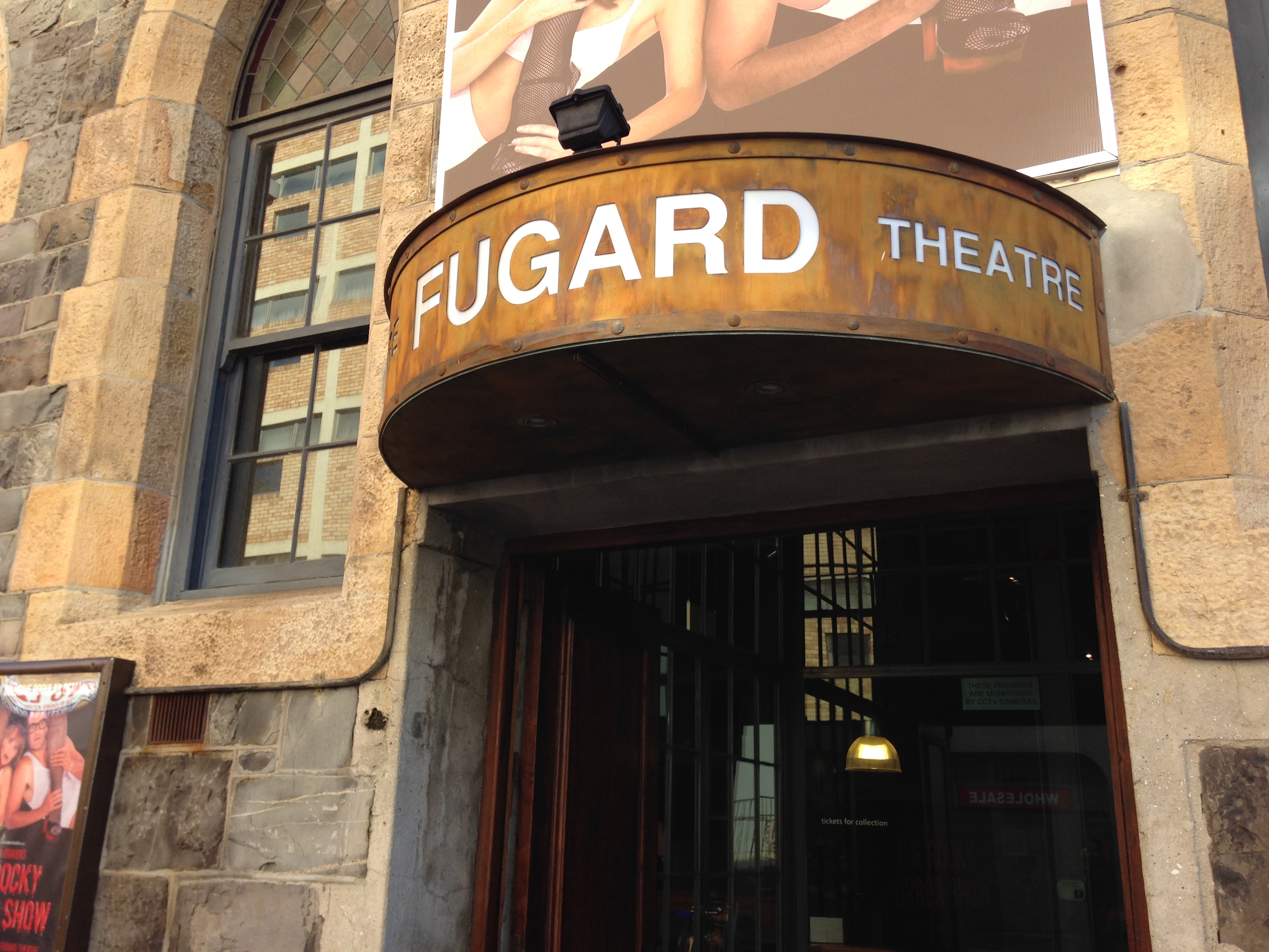 The Fugard Theatre in Cape Town is housed in an old converted church. This media shows a South African Protected Site with SAHRA file reference New.